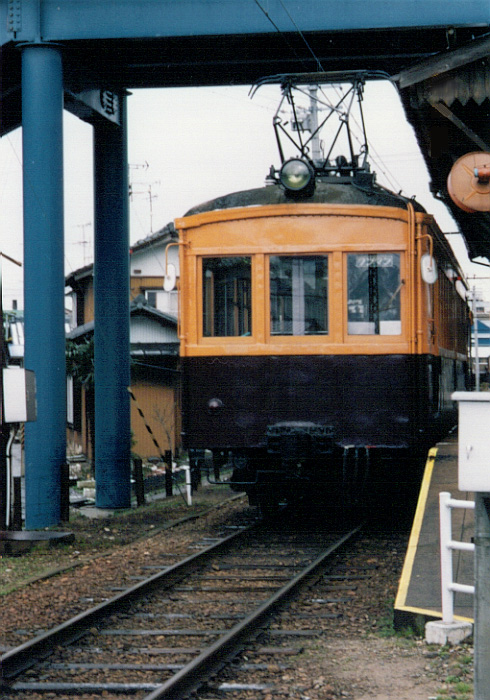 Electric Multiple Unit of Kambara Railway.